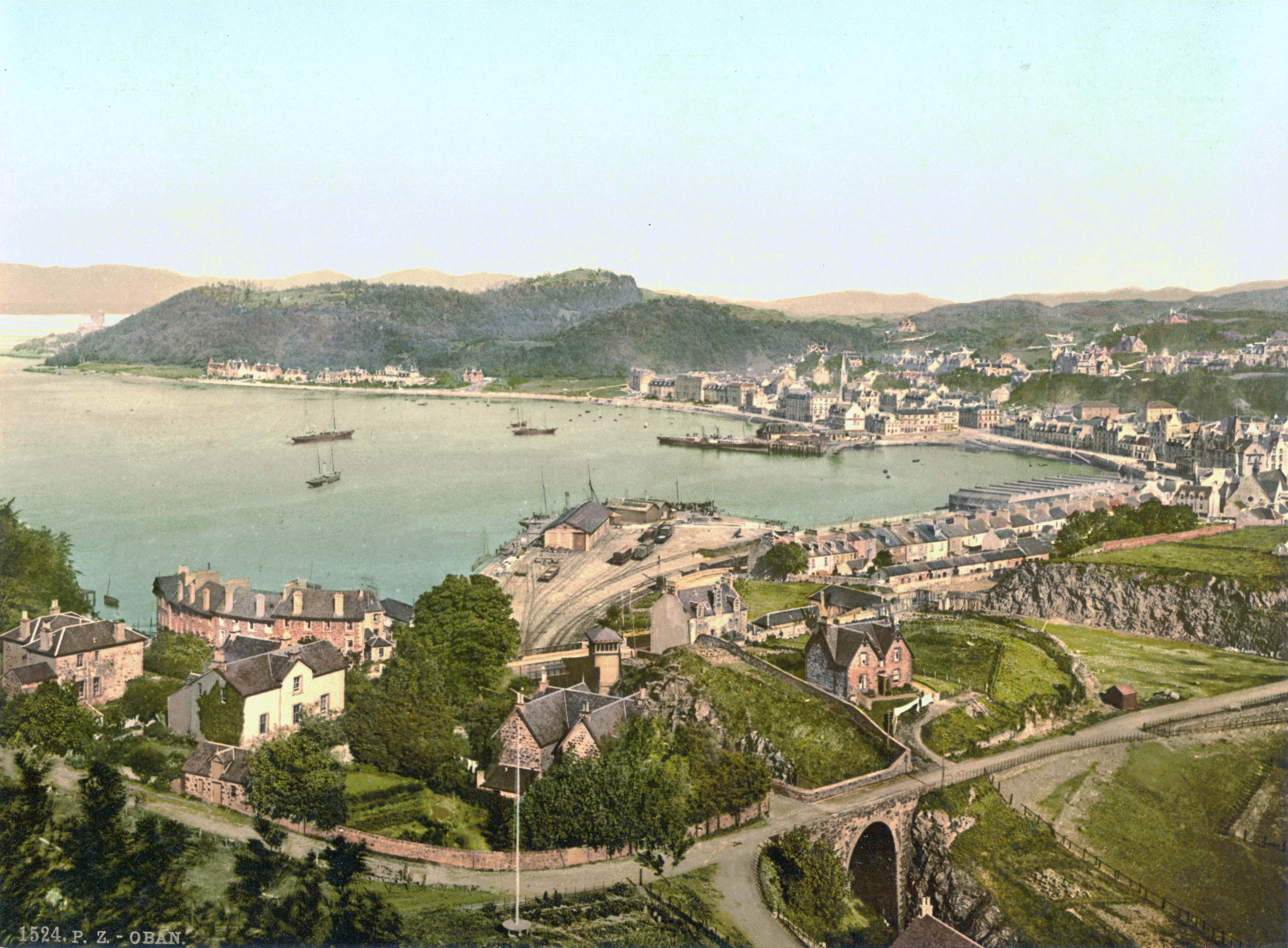 The place Oban in Scotland